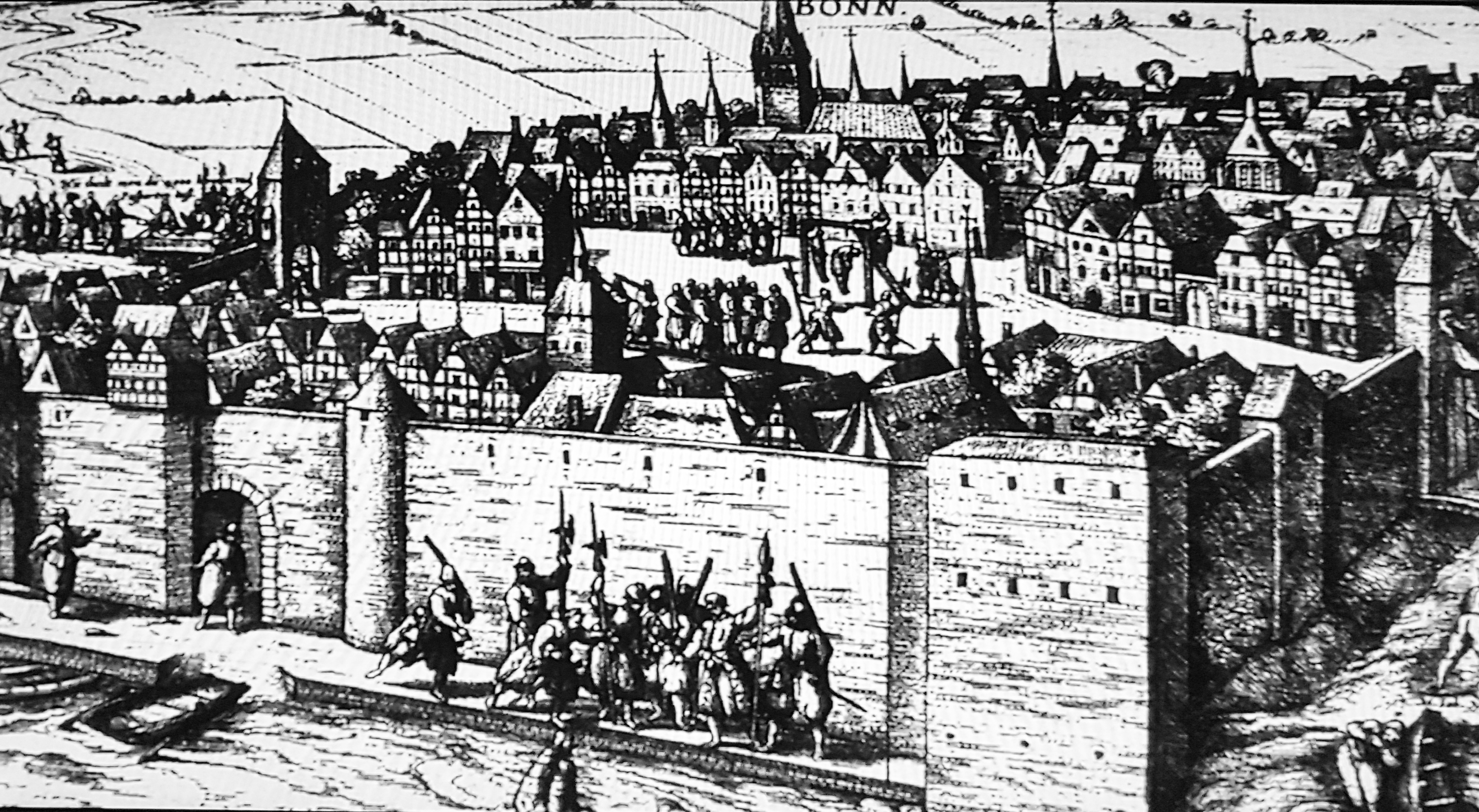 Photo of an engraved illustration of Franz Hogenberg works, 1584 in the time of Cologne War